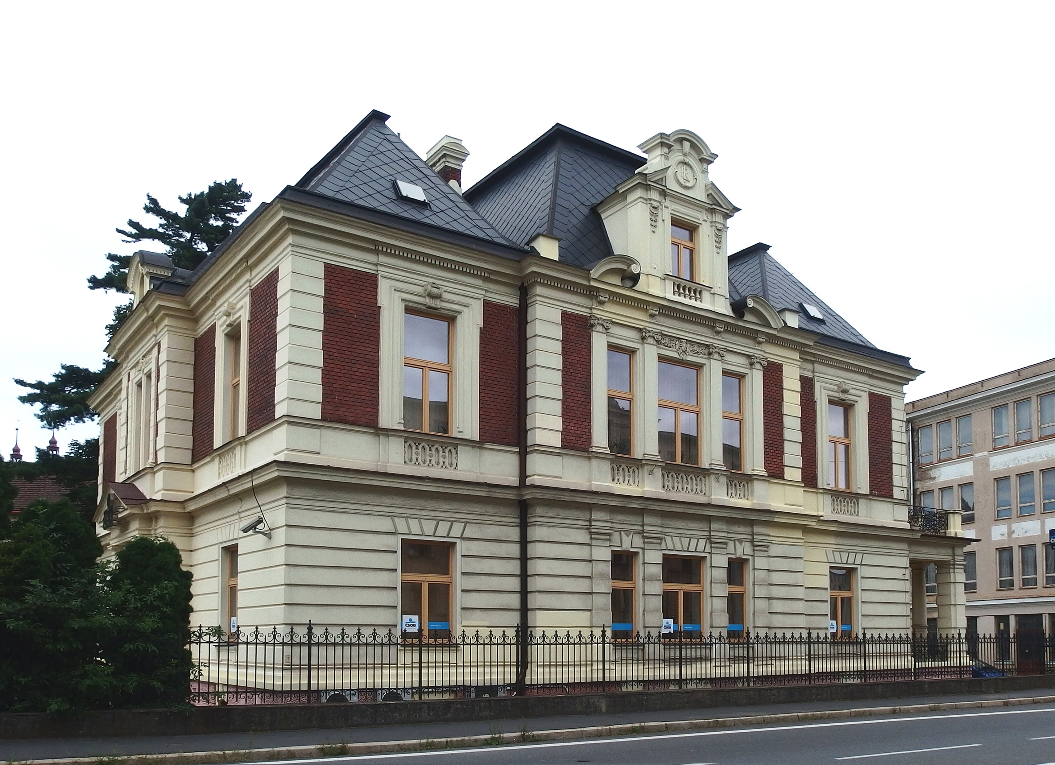 Krnov, Bruntál District, Czech Republic.